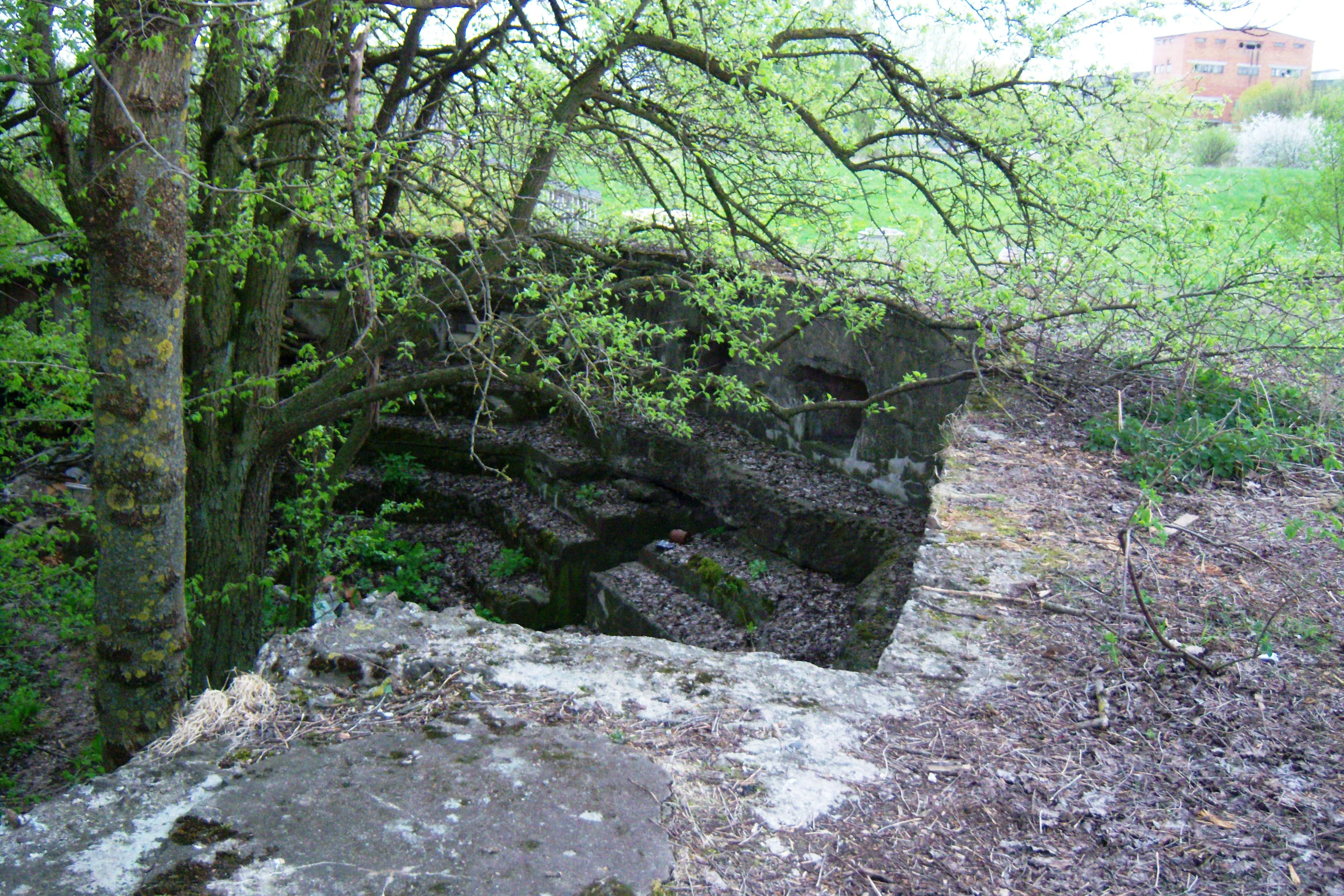 Kaunas Fortress Domeikava Fort. Bunker Shelf with Ammunition Niches. Lithuania